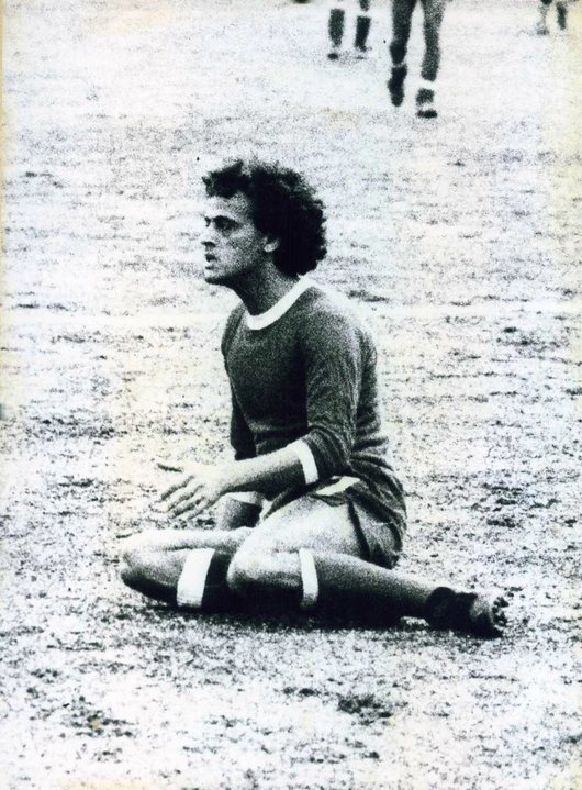 Photo of Orlando Portento as a football player